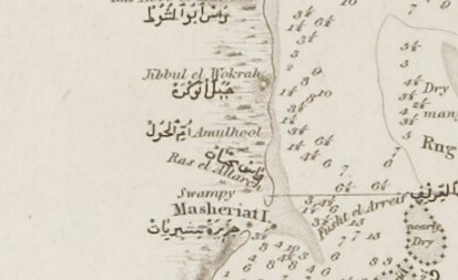 "‘Chart of the Gulf of Persia. Constructed from the Trigonometrical Surveys Made by Order of The Hon.ble the Court of Directors of the United English East India Company; by George Barnes Brucks, Commander H.C. Marine. 1830. Engraved by R. Bateman, 85 Long Acre’"